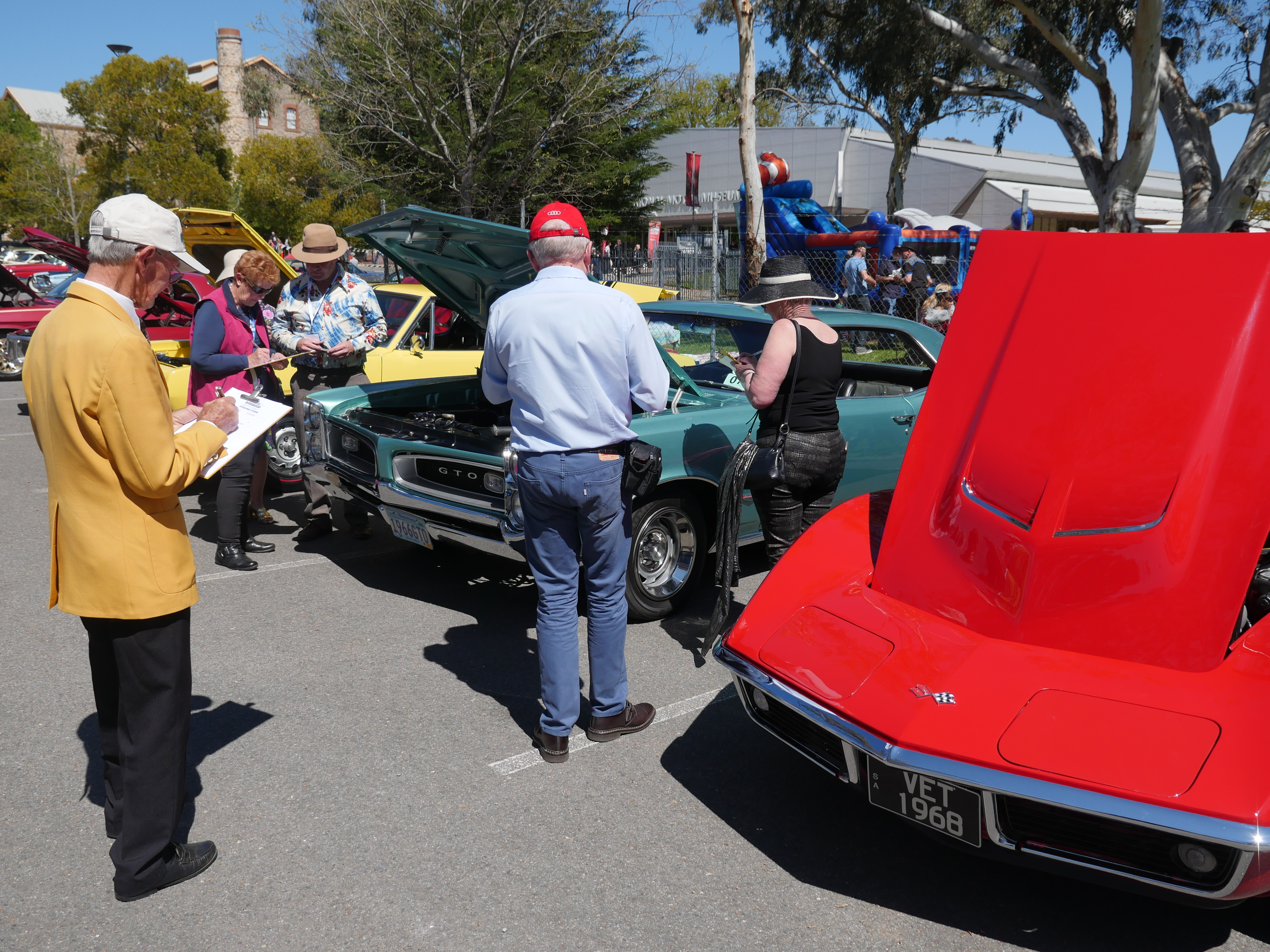 Juding the vehicles at the Bay to Birdwood Classic 2015.